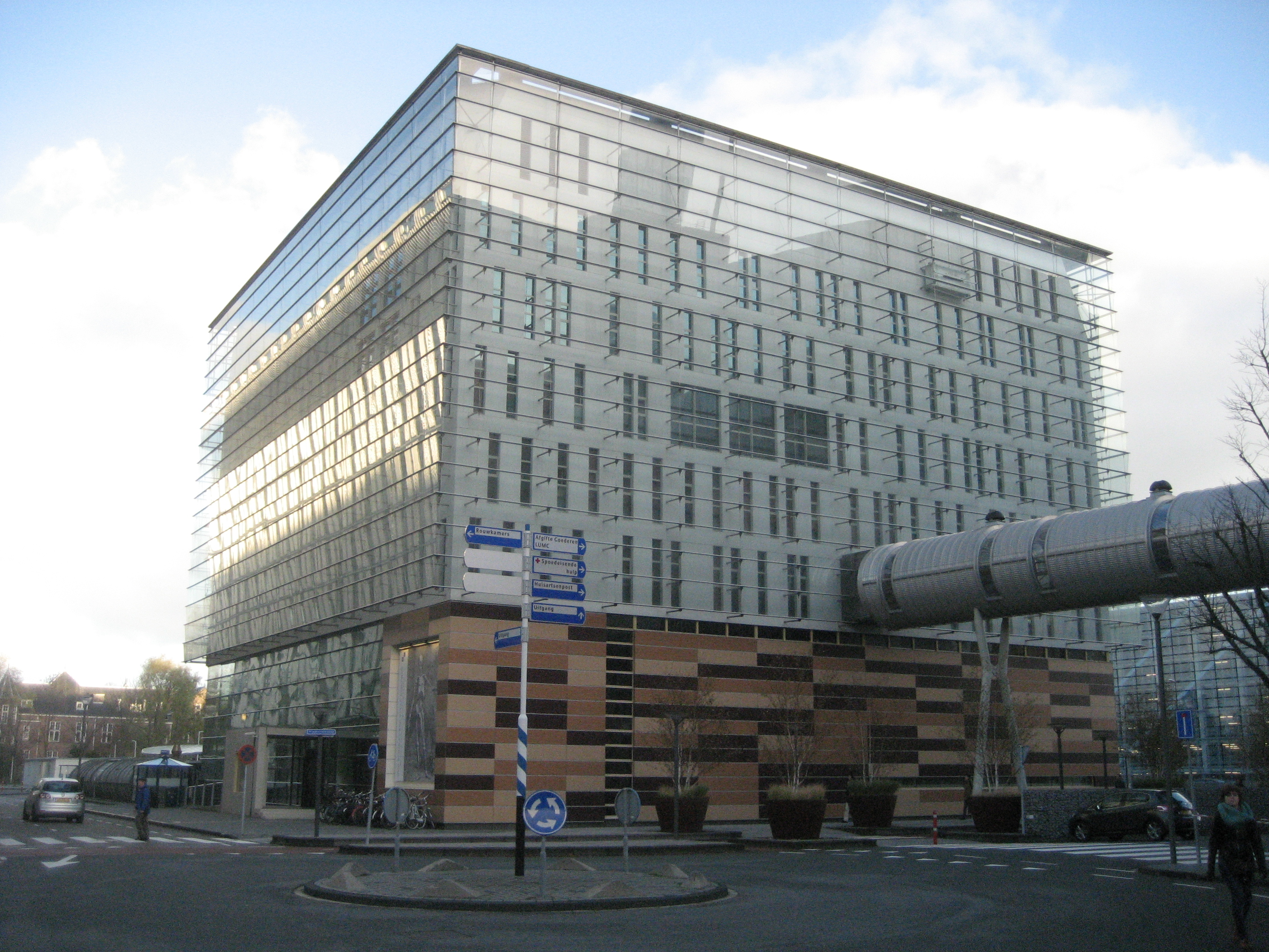 Leiden University Medical Centre, Education Building, Hippocratespad 21, 2333 ZD Leiden (The Netherlands). Building 3. Location Anatomical Museum Leiden